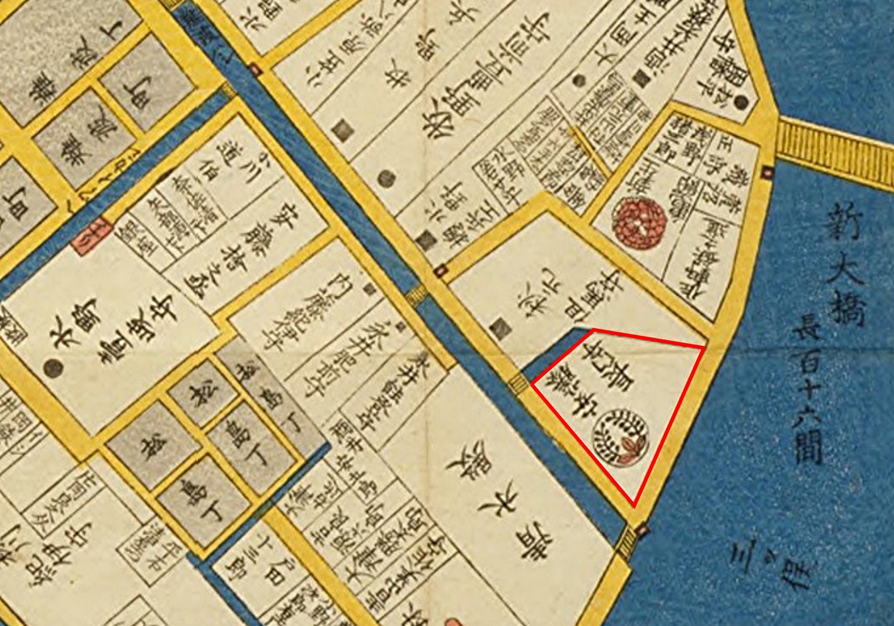 Residence of Taira-Andô at Edo